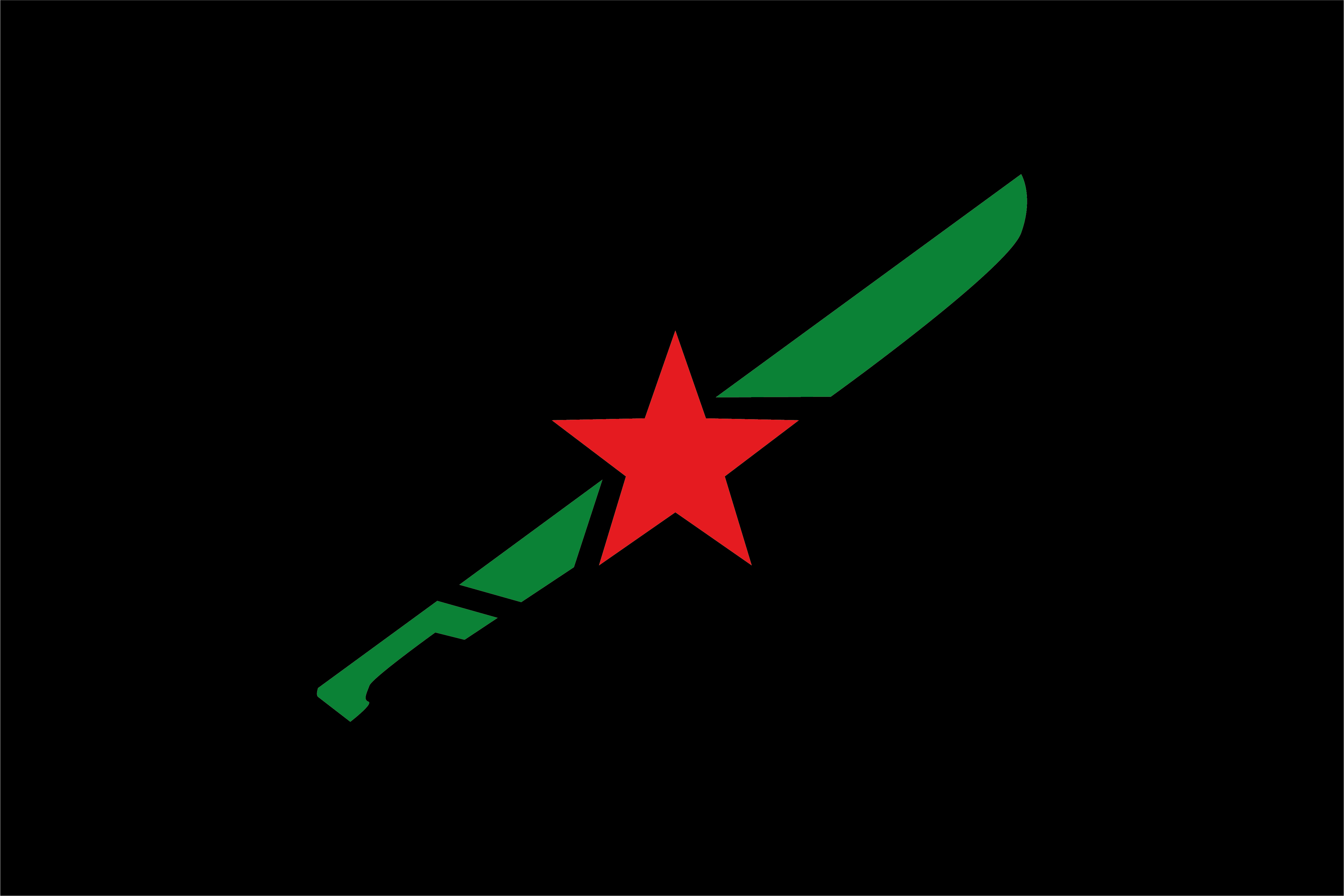 Logo of the Boricua Popular Army.